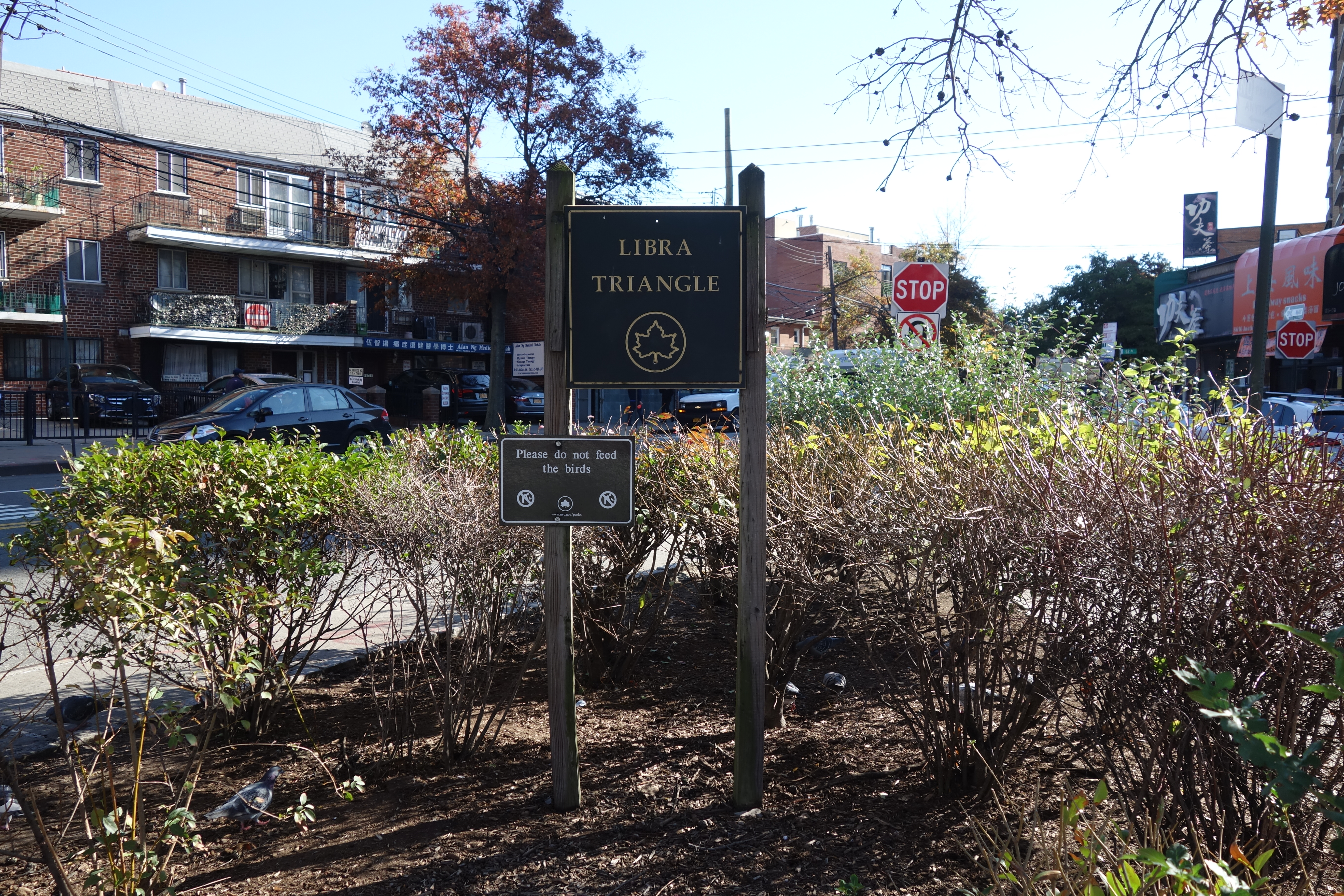 A classic Parks Department sign for Libra Triangle / Horsebrook Island, on the east side of Broadway and Justice Avenue north of Queens Boulevard in Elmhurst, Queens. The "Horsebrook" name comes from Horse Brook, a now buried stream which once ran east through Elmhurst along what are now Justice Avenue and the Long Island Expressway towards Flushing Creek. The "Libra" name is for the constellation. A second Horsebrook Island is located east of here near Queens Center and the Newtown High School Athletic Field.